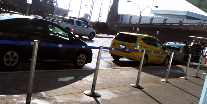 Loading area for taxis at YVR by domestic flights